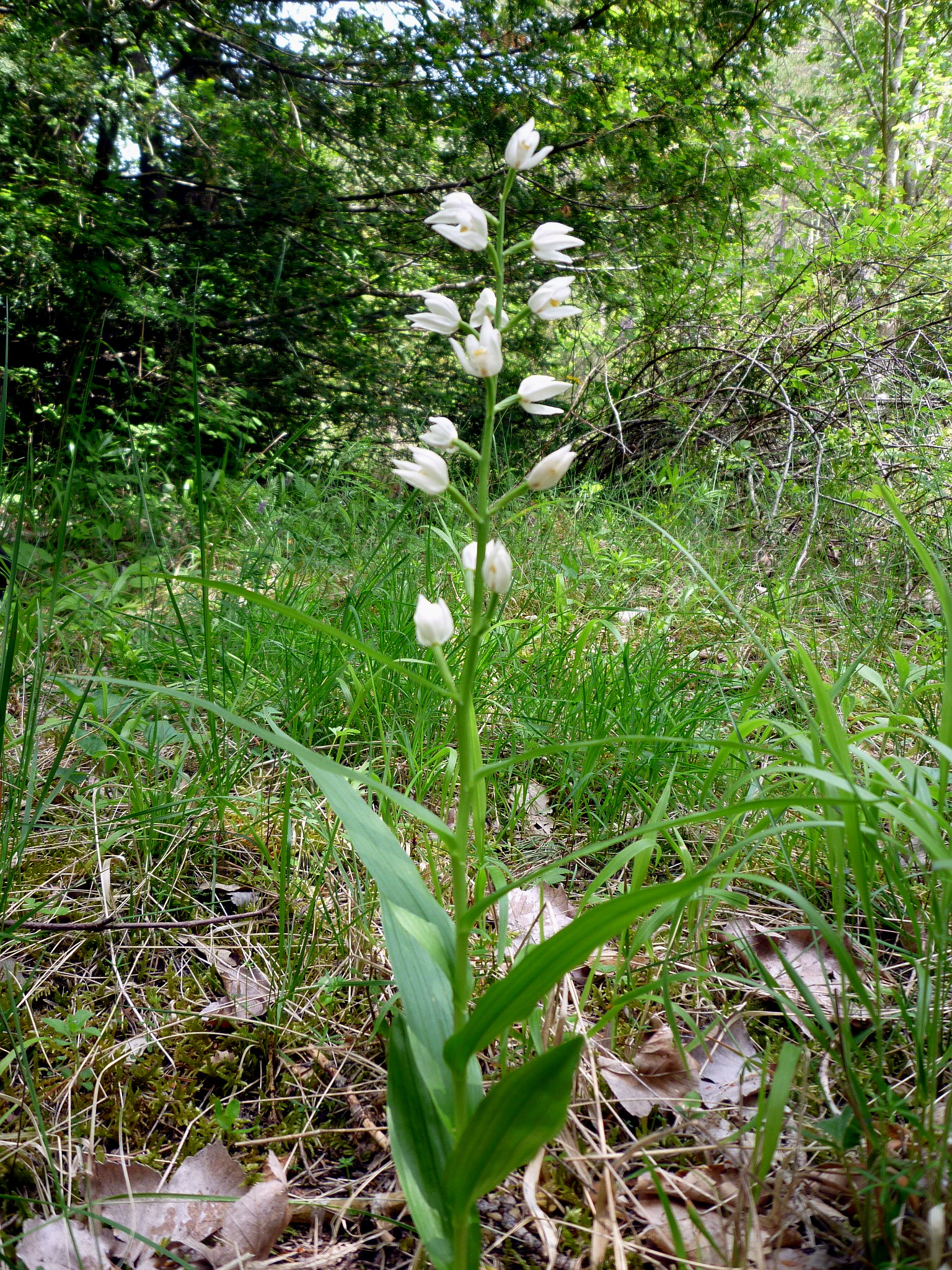 Cephalanthera longifolia. In Guixers (Solsonès - Catalunya), to 900 m. altitude